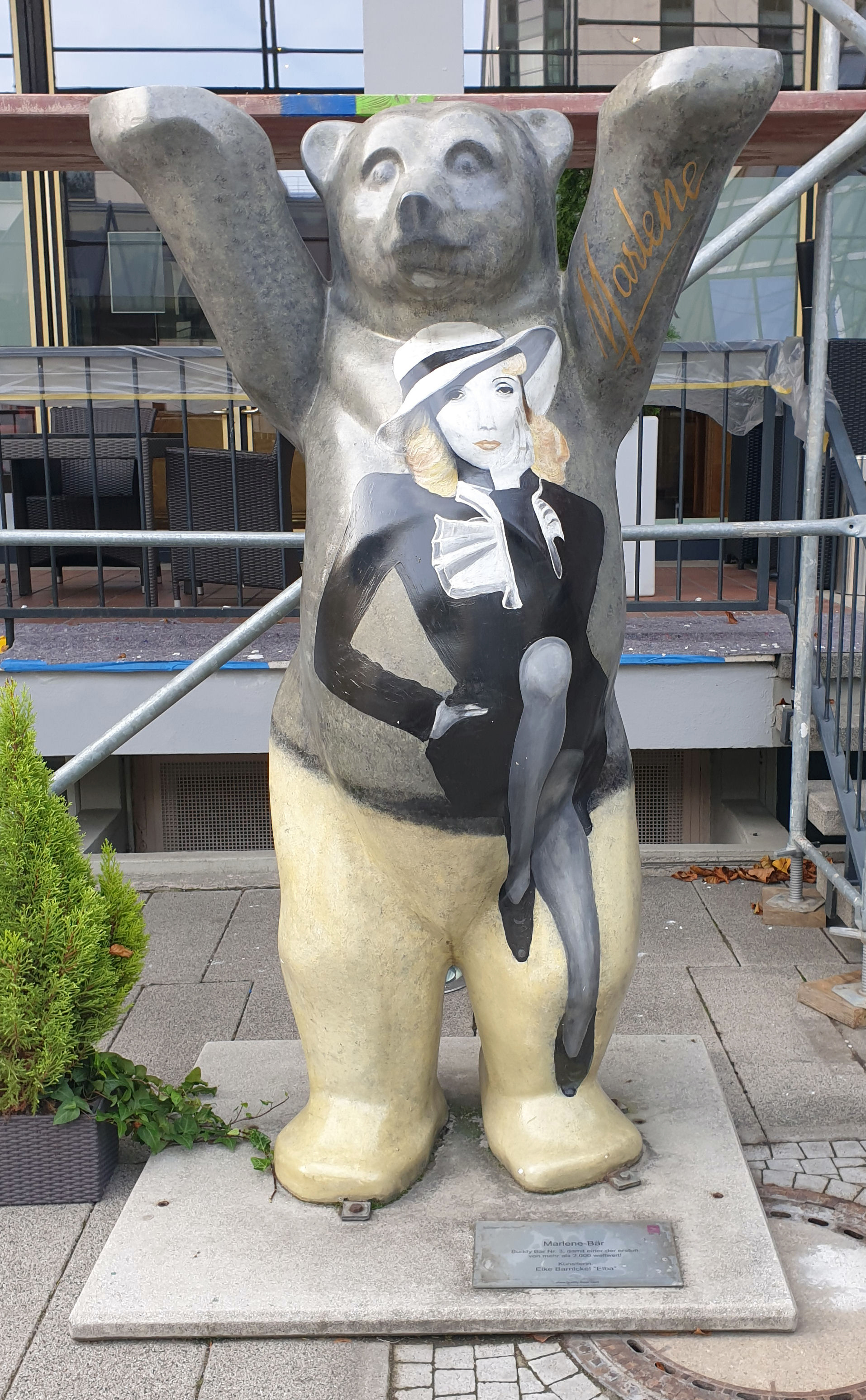 Sculpture, Marlene Bär, Budapester Straße 2, Berlin-Tiergarten, Germany